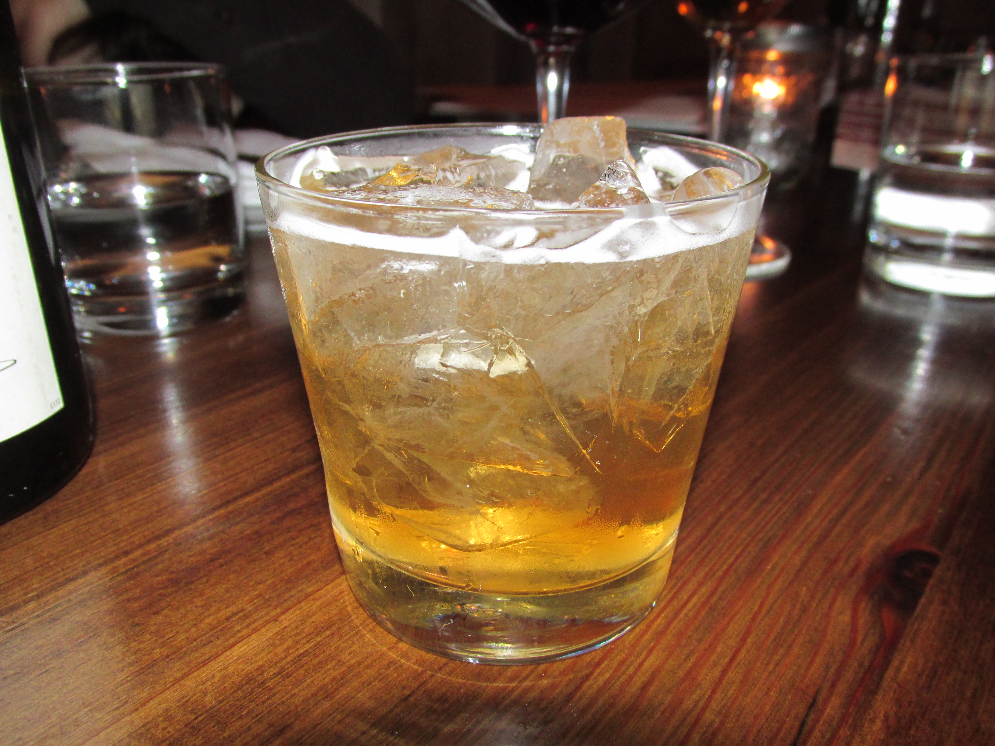 Polar Bear cocktail, Empire State South, Atlanta Georgia